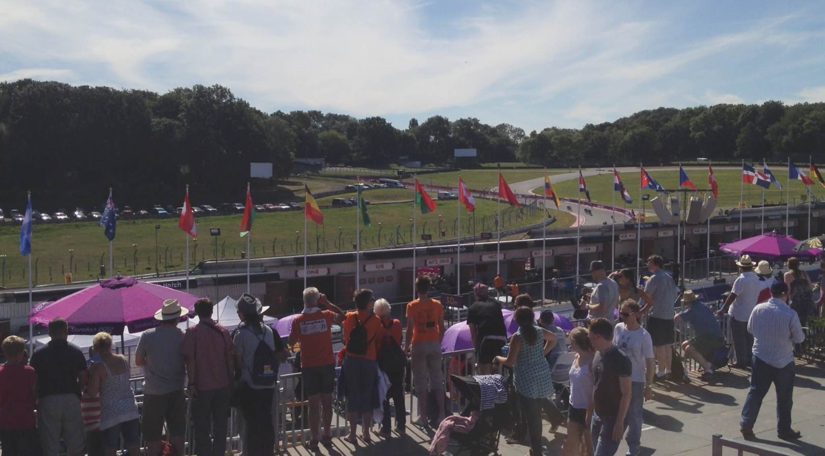 Paralympic Cycling at Brands Hatch, Kent, England. Picture taken on the final lap of the Womens' B-category tandem race.